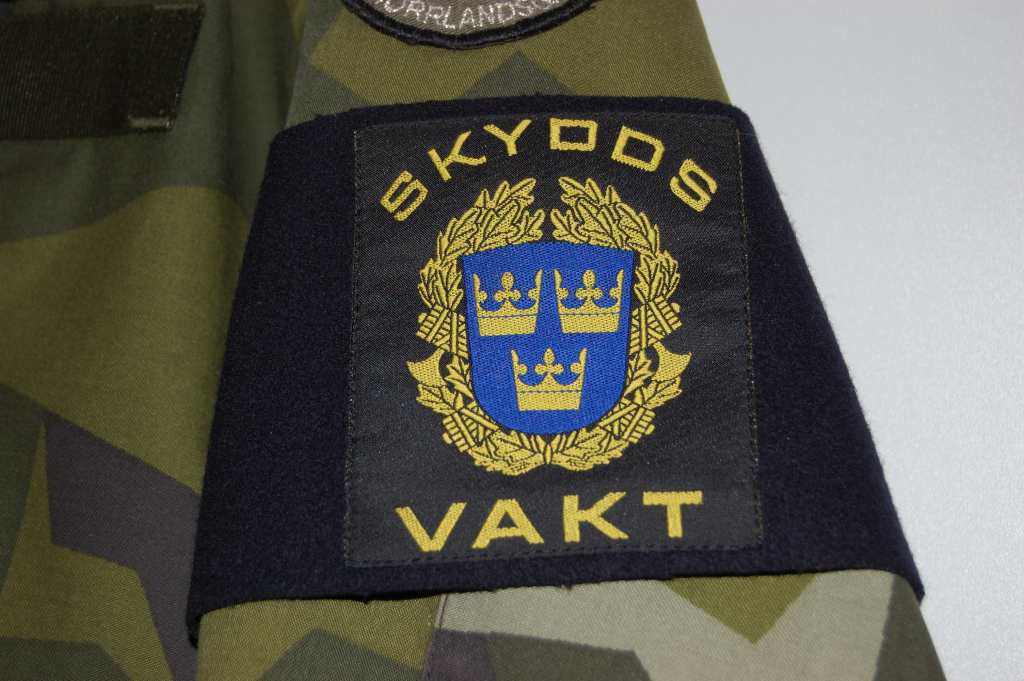 Swedish mark of special guards garding military (and sometimes civilian) devices and buildings.